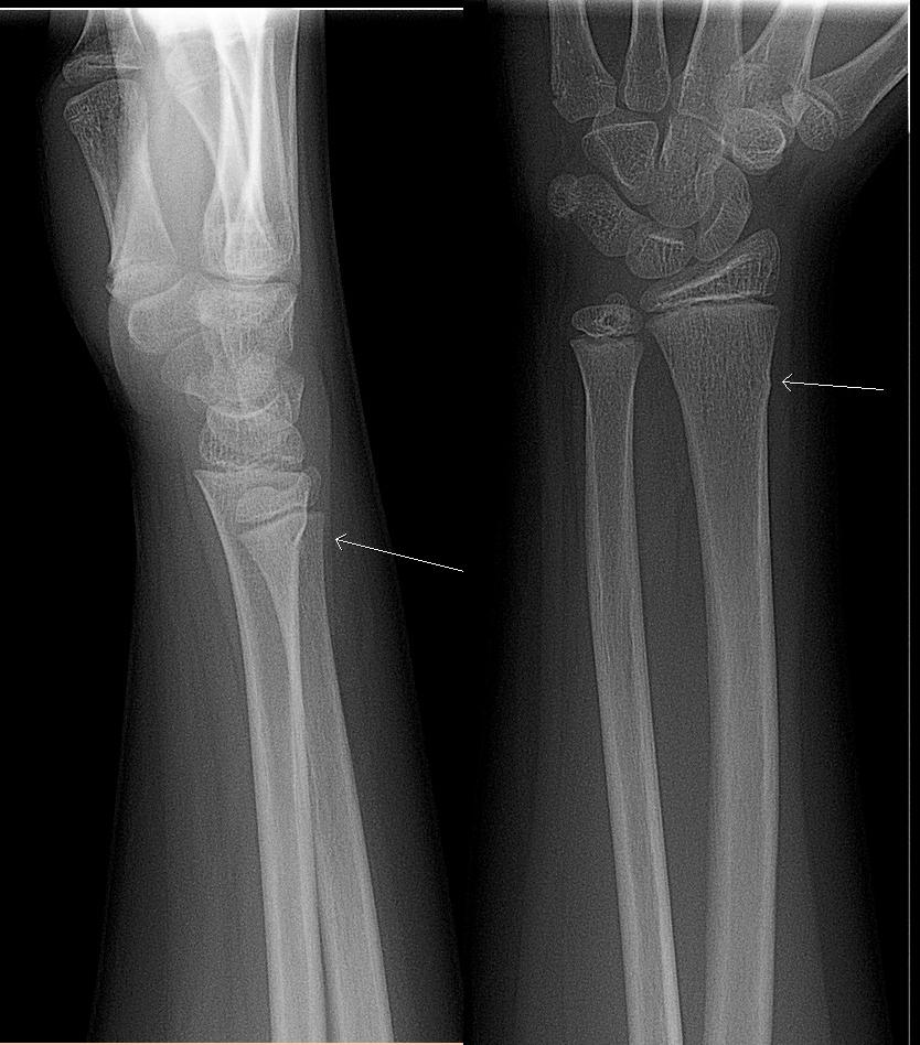 X-ray of a greenstick fracture of a wrist.